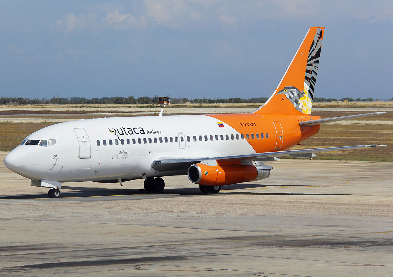 Rutaca Boeing 737-200 in new livery at Porlamar Airport